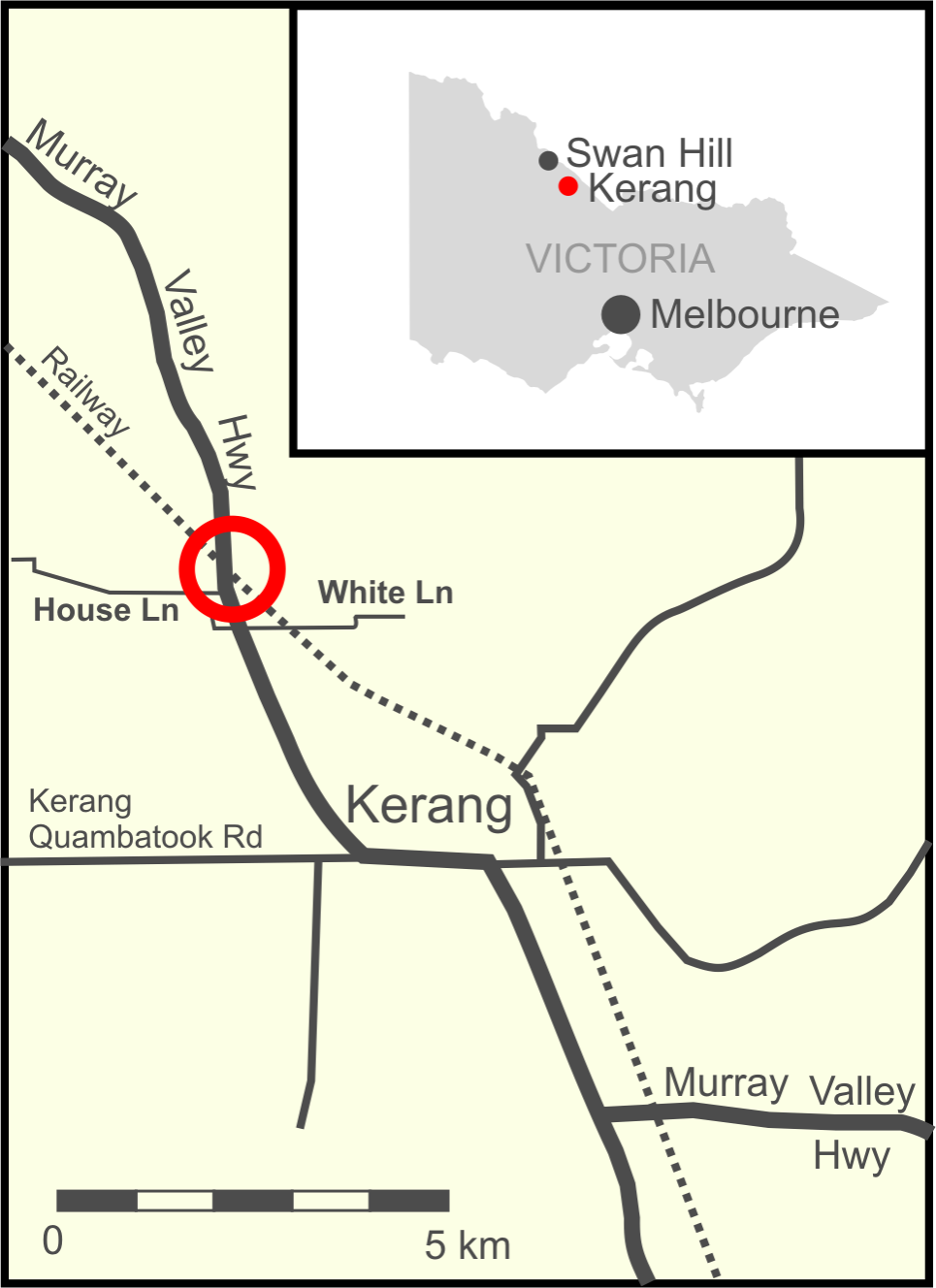 Location of rail accident near Kerang, Victoria, Australia (June 2007)